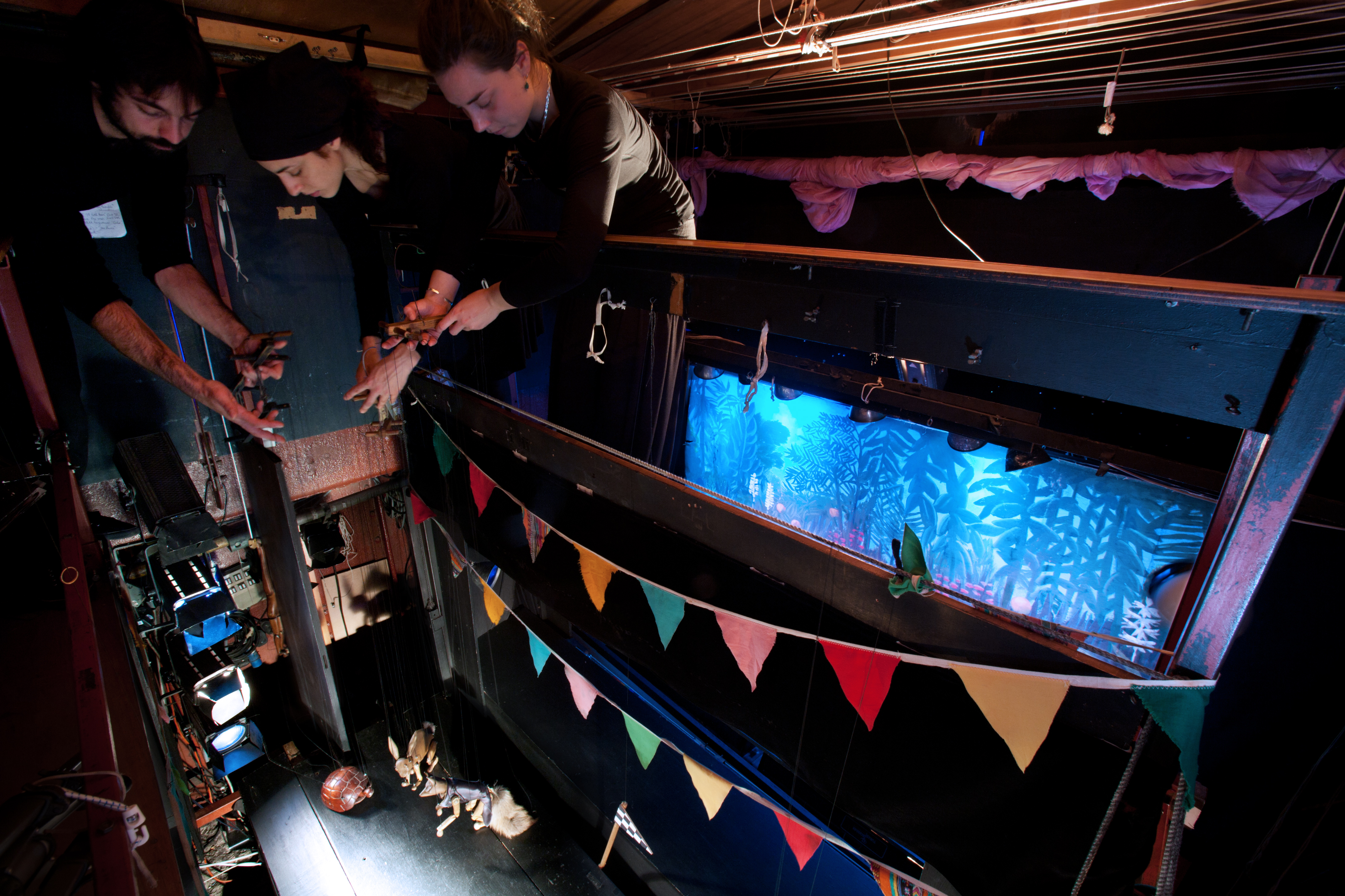 Puppeteers at work. The Puppet Barge, London